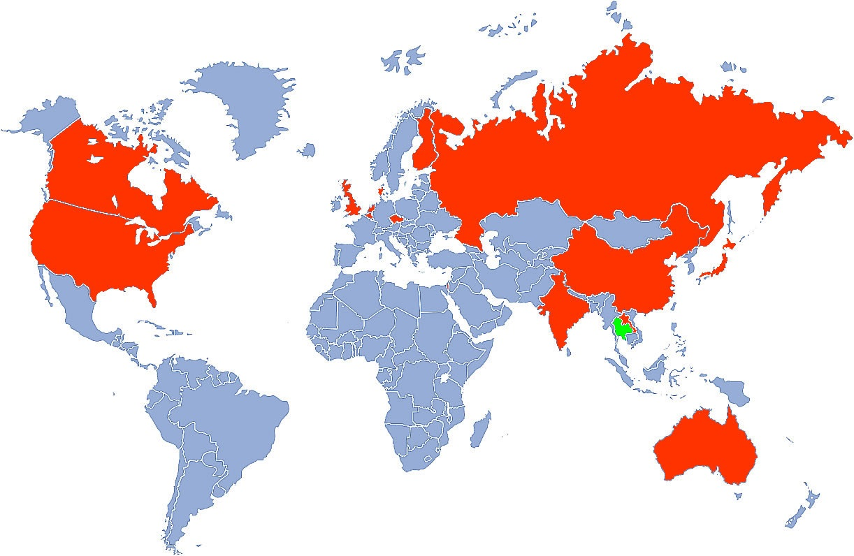 Map of the world showing countries (marked in RED) that participated in the Tham Luang cave rescue in Thailand (marked in GREEN).